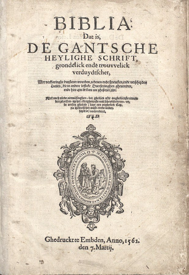 Frontpage Deux-aesbible First edition 1562